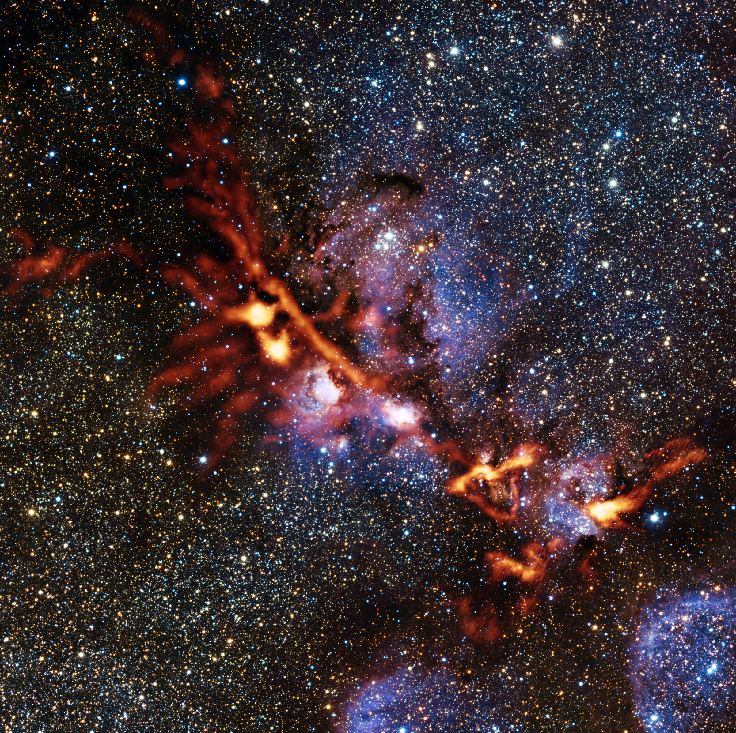 This image of the star formation region NGC 6334 is one of the first scientific images from the ArTeMiS instrument on APEX. The picture shows the glow detected at a wavelength of 0.35 millimetres coming from dense clouds of interstellar dust grains. The new observations from ArTeMiS show up in orange and have been superimposed on a view of the same region taken in near-infrared light by ESO’s VISTA telescope at Paranal.